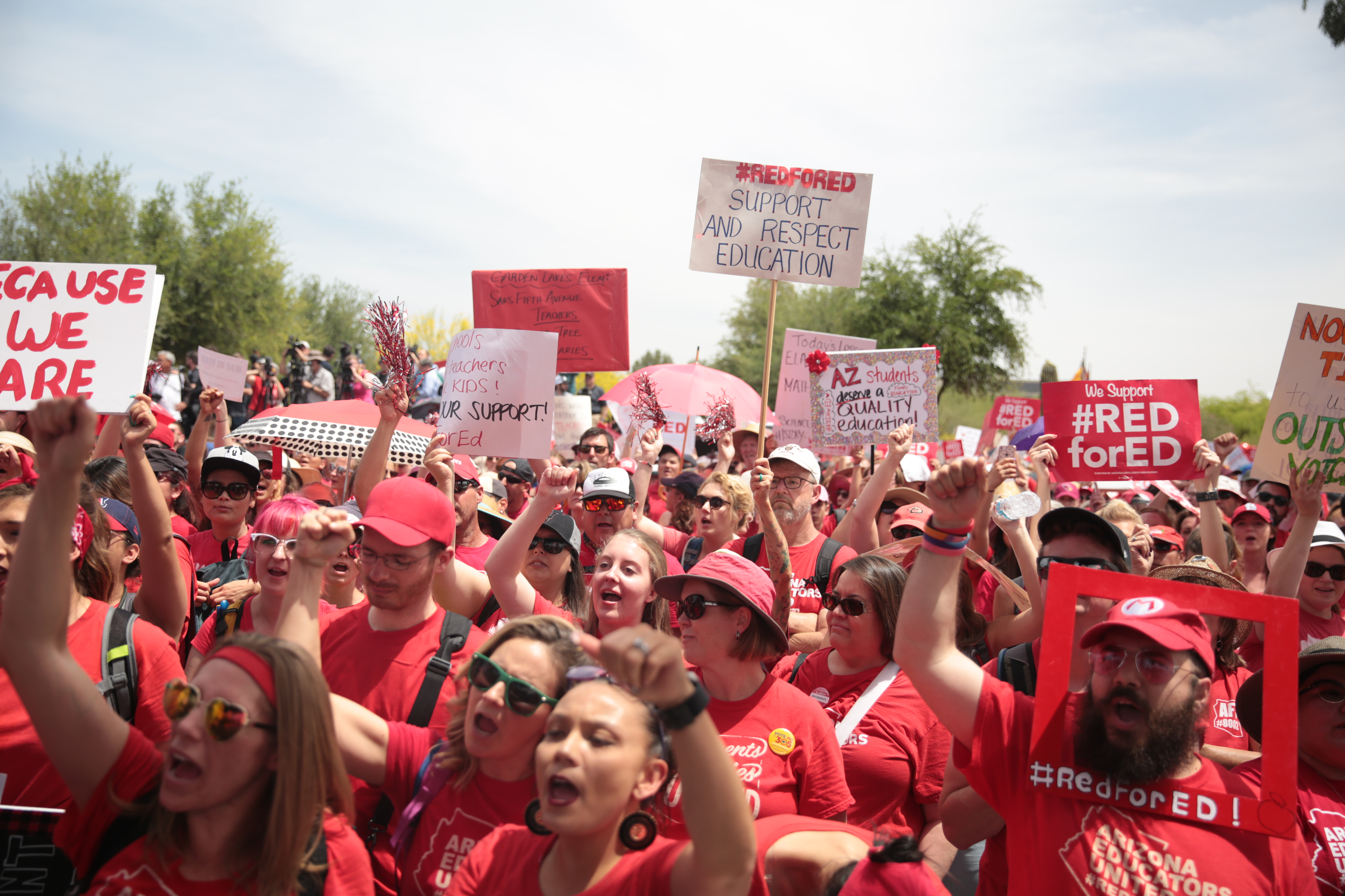 Photo by Gage Skidmore for Arizona Education Association Arizona teacher's strike and rally on April 26, 2018.